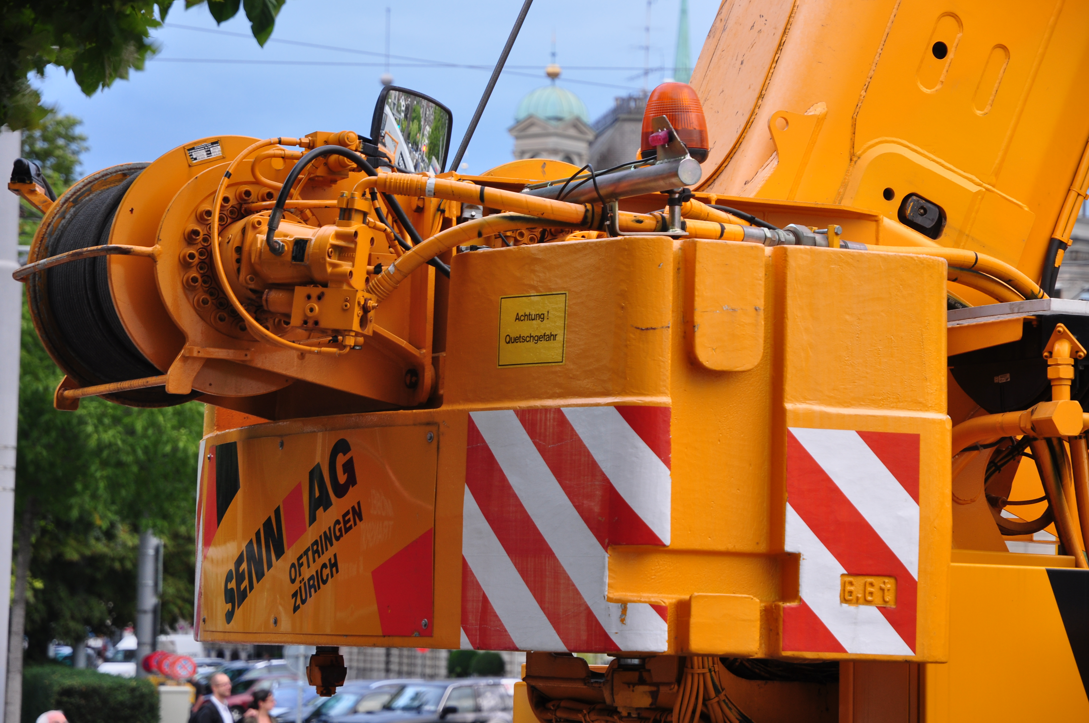 Maman by Louise Bourgeois at the Zürichsee-Schifffahrtsgesellschaft (ZSG) landing gate, Bürkliplatz (Alpenquai) in Zürich (Switzerland), demontage for transportation to Geneva on July 28, 2011.